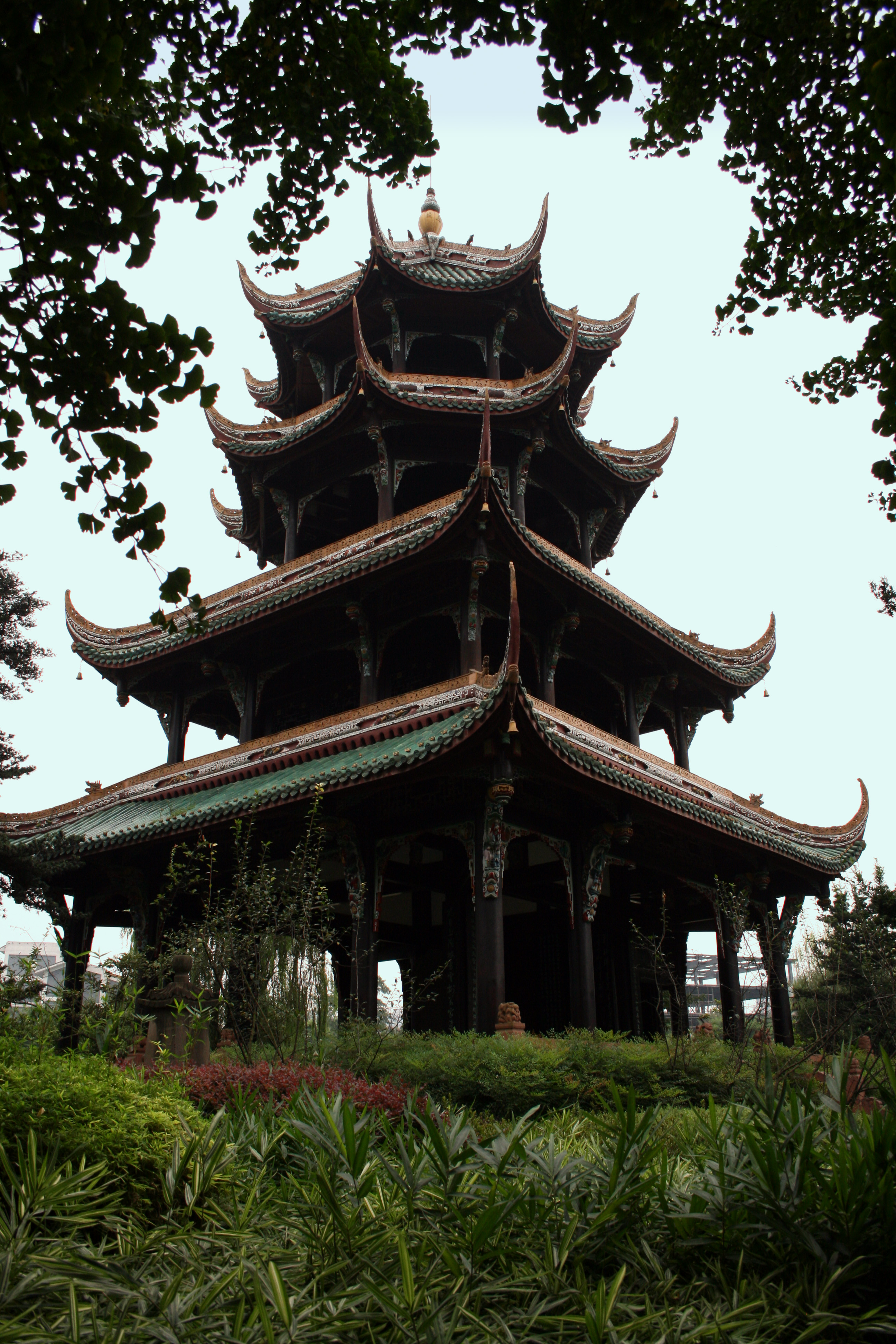 The Wangjianglou Tower, Chengdu